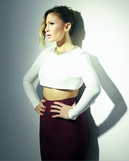 Screenshot of video, Vitaa while promo photoshoot of "Vivre"